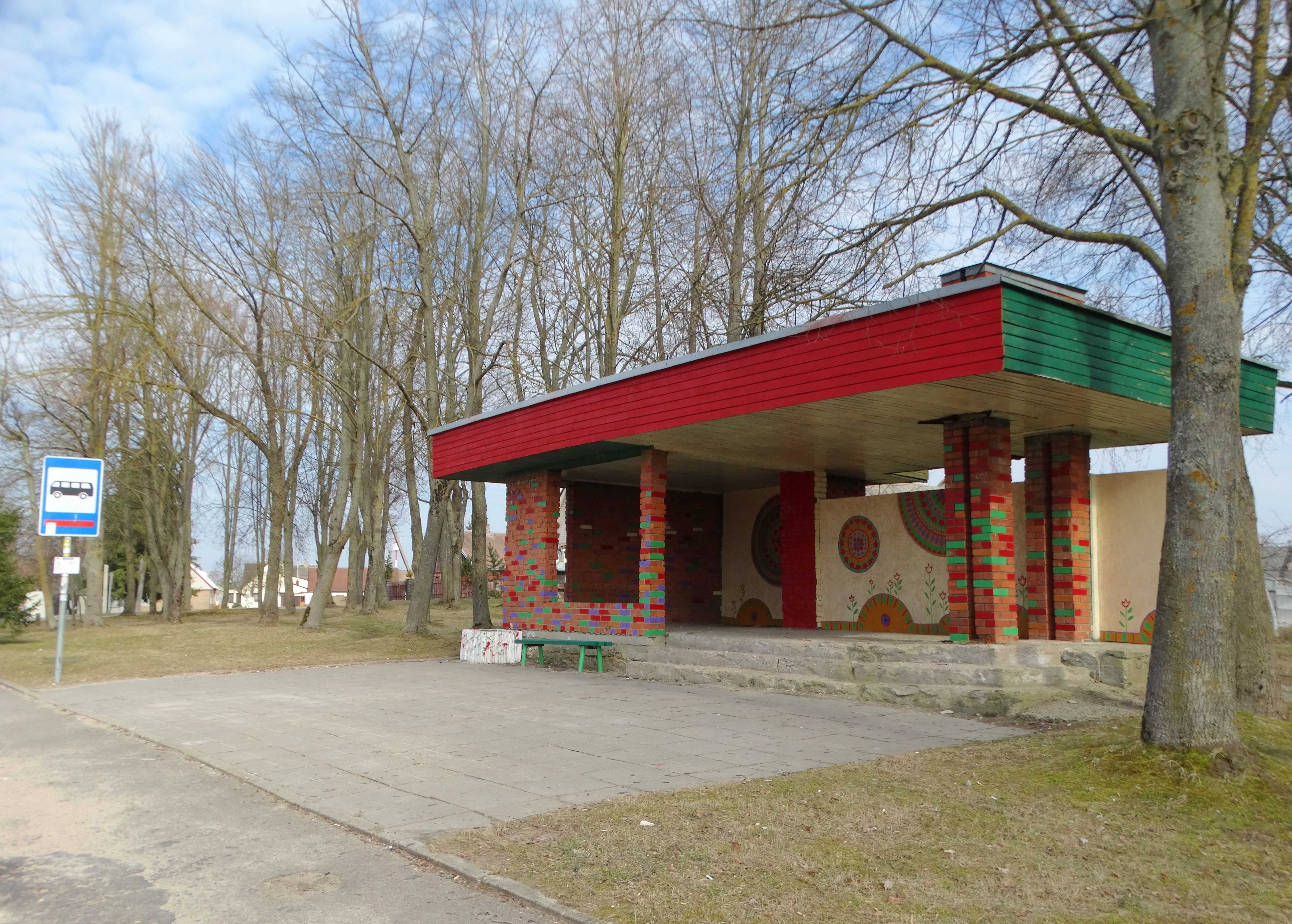 Bus stop, Josvainiai, Kėdainiai district, Lithuania